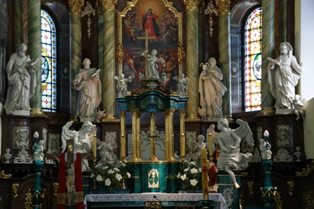 Dominican sanctuary of Our Lady in Gidle, Poland